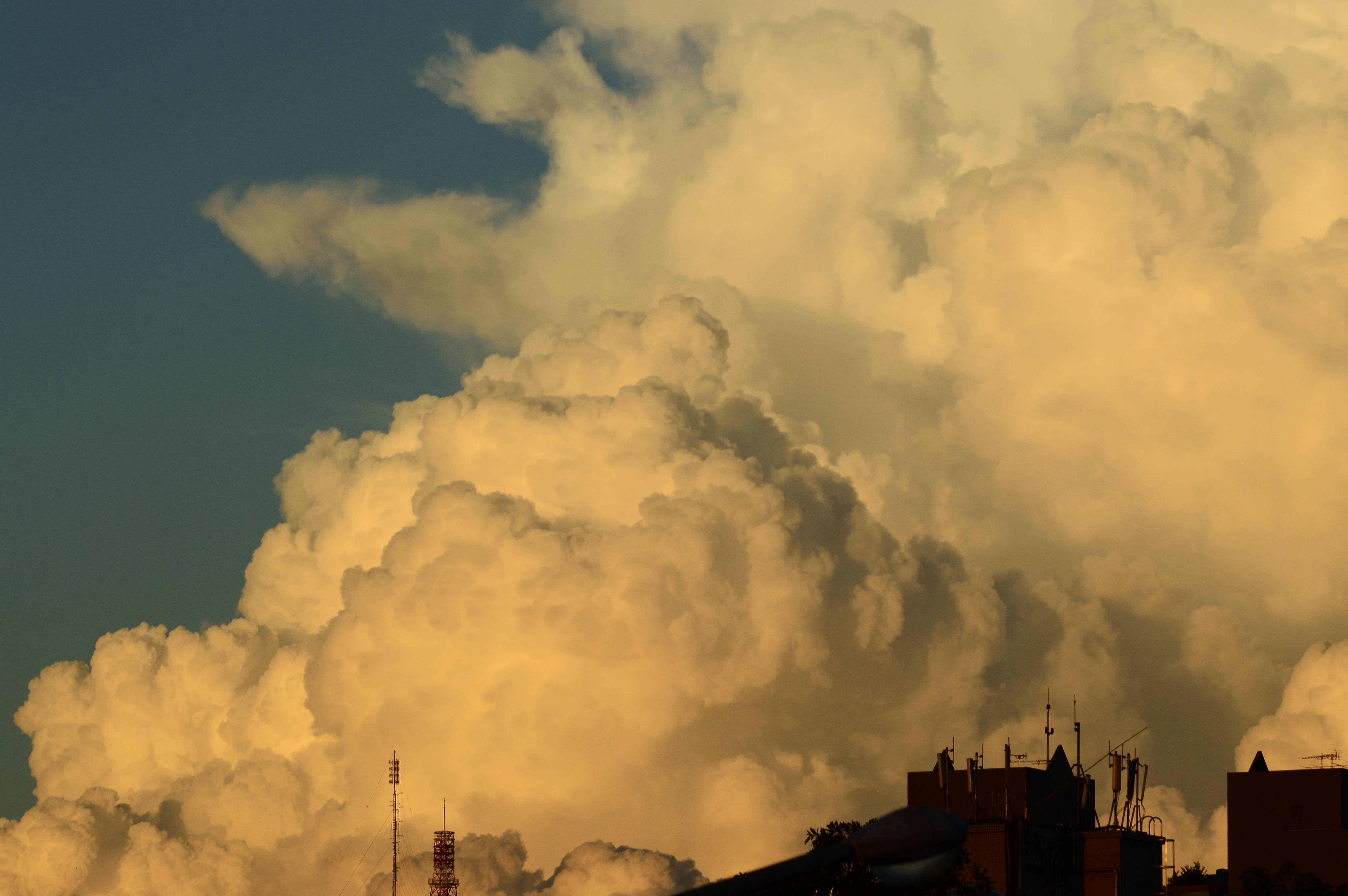 Cloud at the end of summer in Taiwan